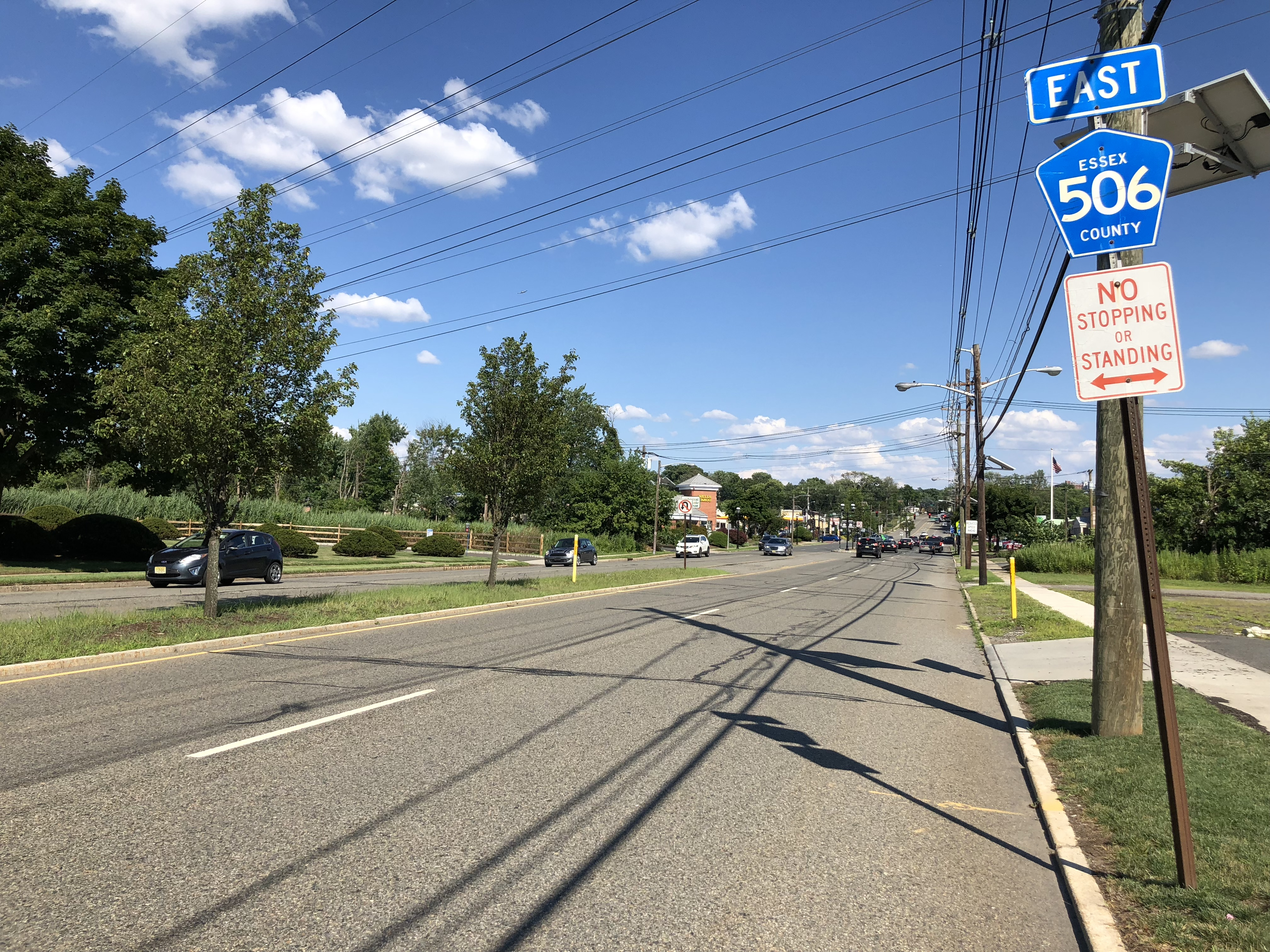 View east along Essex County Route 506 (Bloomfield Avenue) at Essex County Route 613 Spur (Kirkpatrick Lane) in West Caldwell Township, Essex County, New Jersey